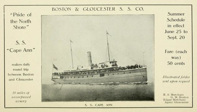 S.S. Cape Ann, Boston & Gloucester S.S. Co., Massachusetts